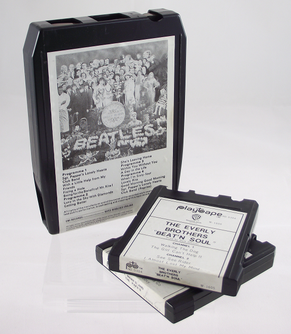 The Play Tape format, in this case a Beatles album